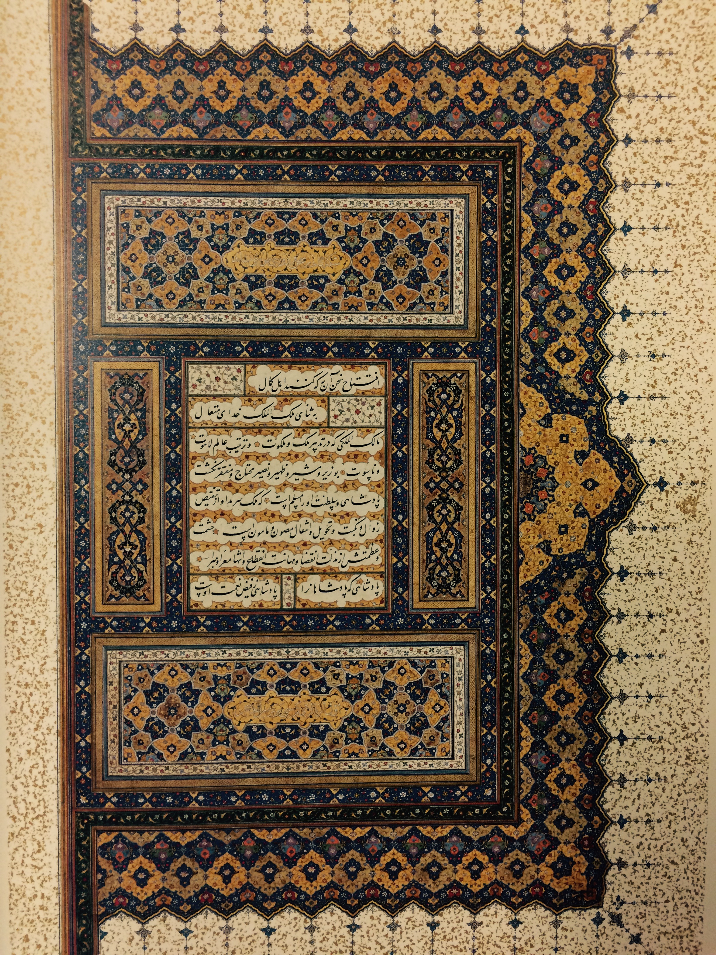 First calligraphic page of Shahnama of Shah Tahmasp (r. 1524–76)